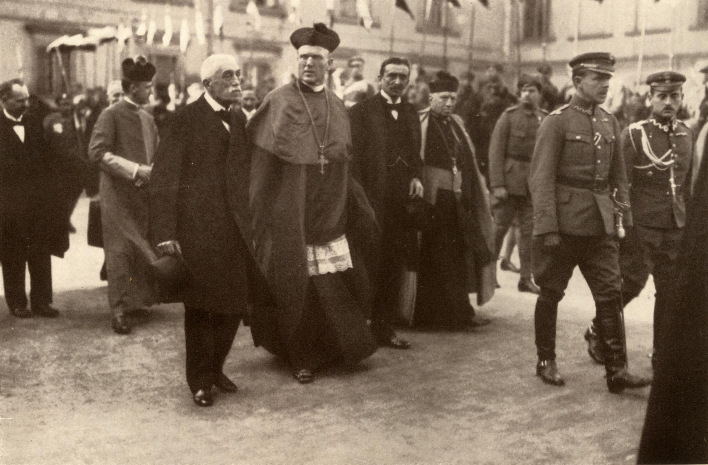 A photograph of the members of the Regency Council (Kingdom of Poland of 1918): Aleksander Kakowski (Archbishop of Warsaw), Zdzisław Lubomirski (former Mayor of Warsaw) and Józef Ostrowski